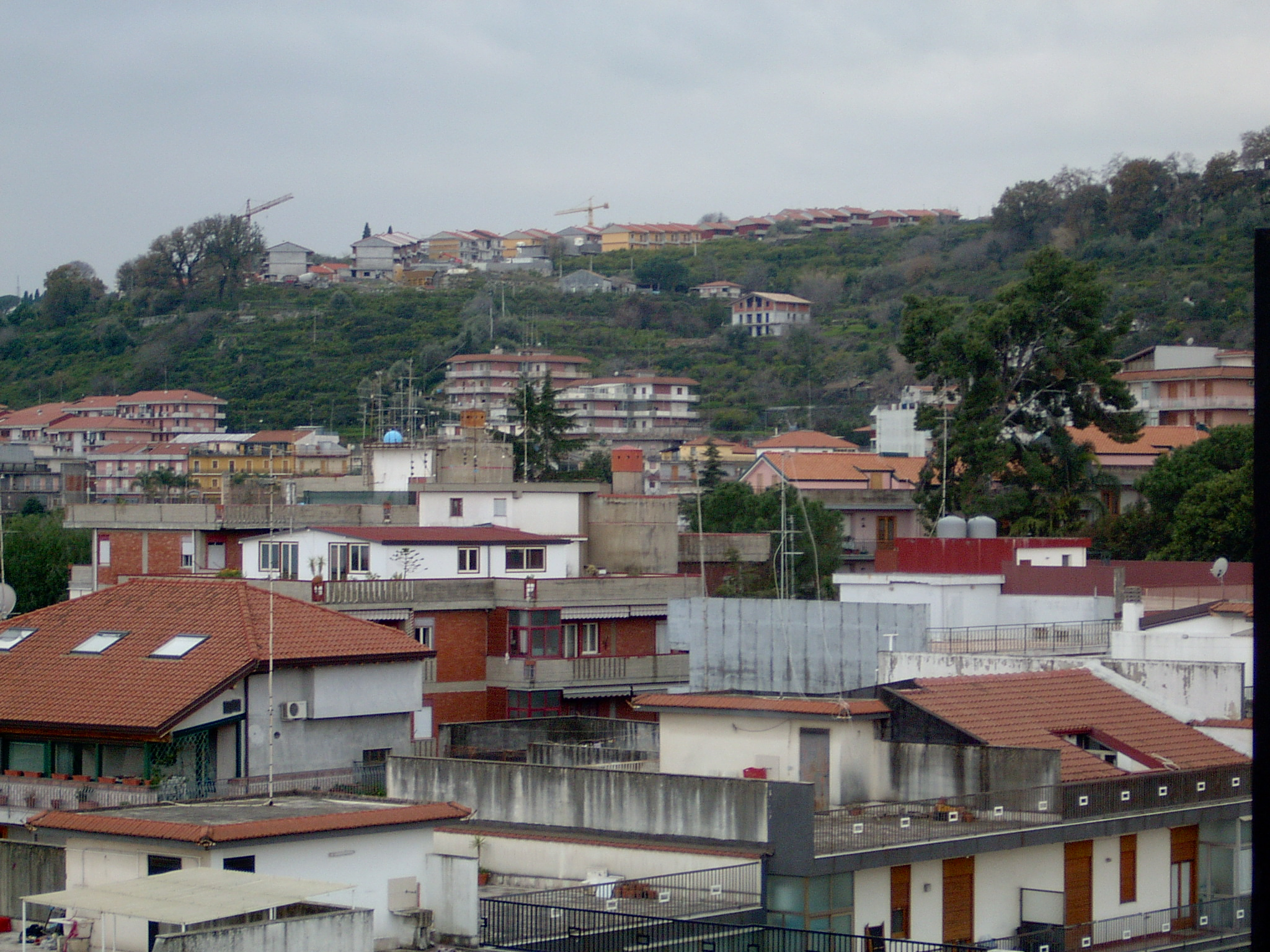 Hills of Acicatena